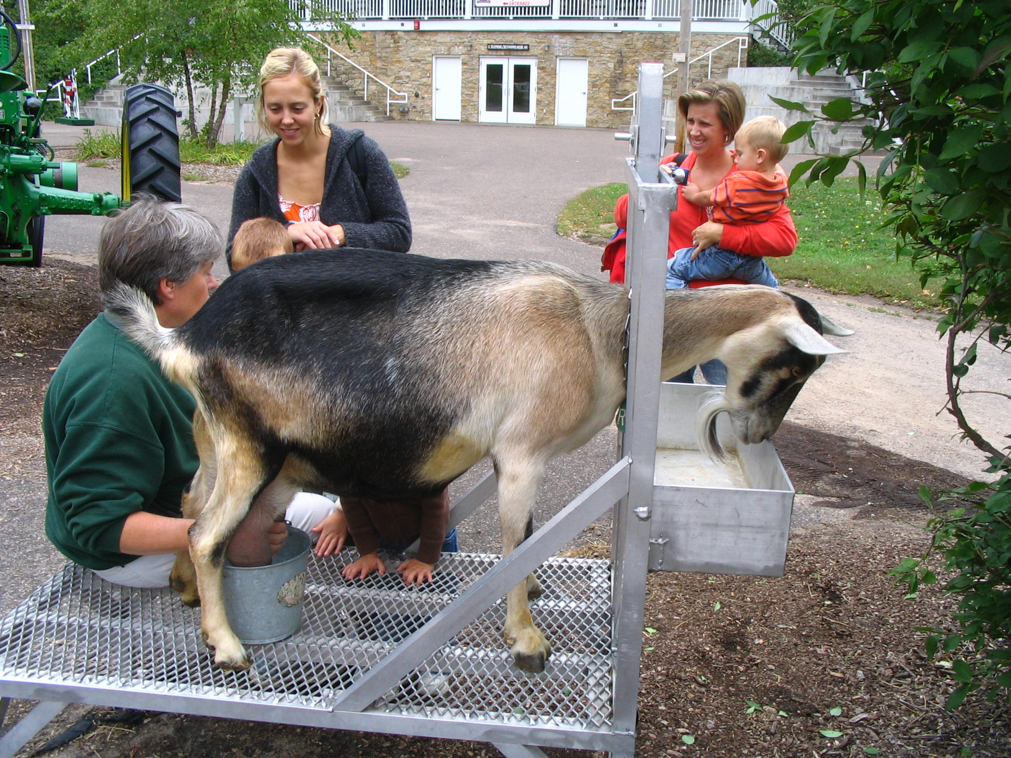 A goat being milked at the farm in the MN Zoo.